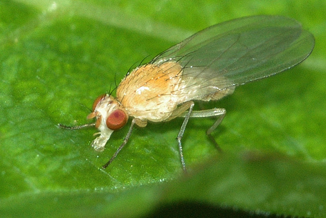 Picture taken in Commanster, Belgian High Ardennes . Species: male Sapromyzosoma quadricincta